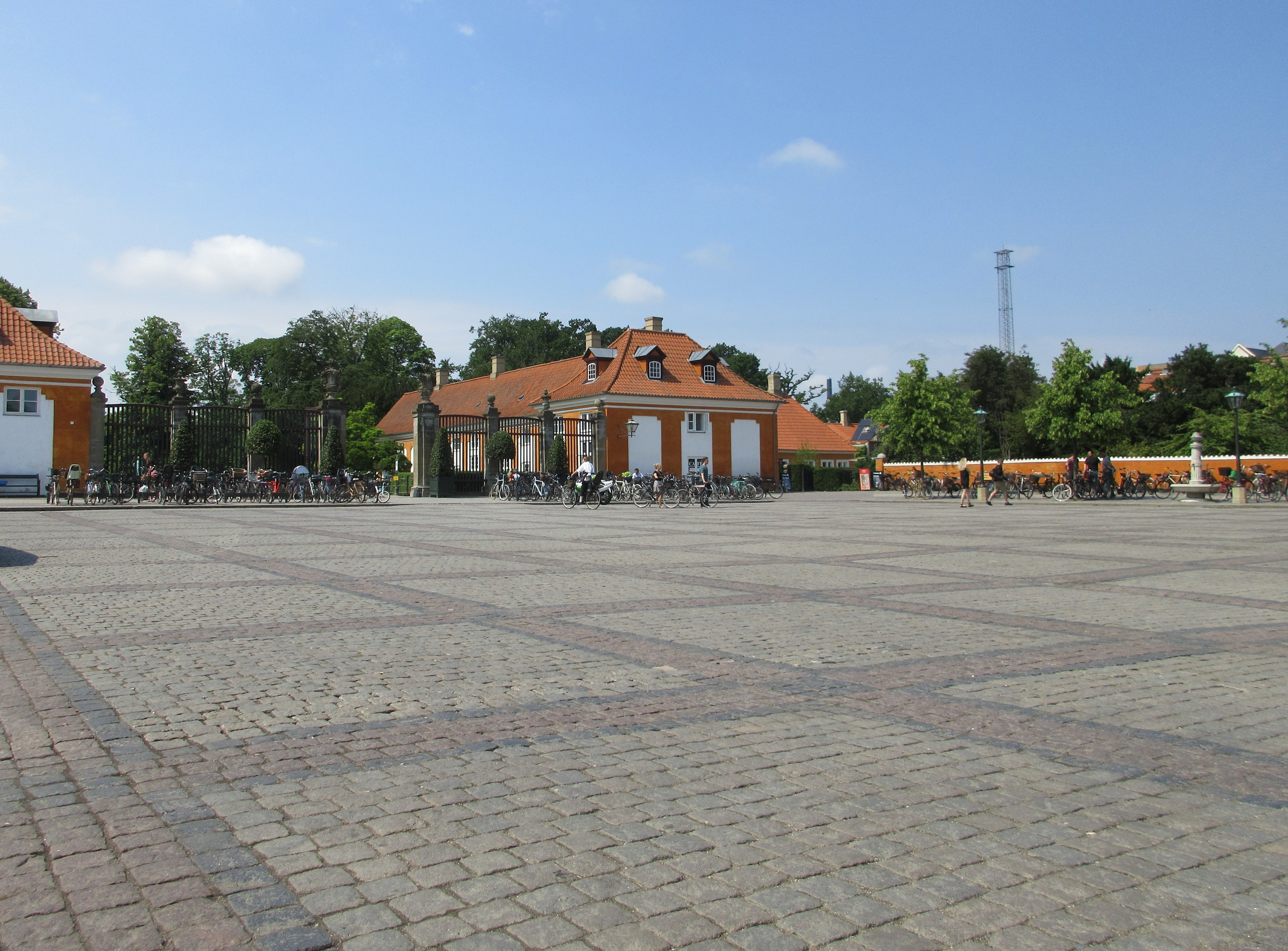 Frederiksberg Runddel in Copenahgen, Denmark